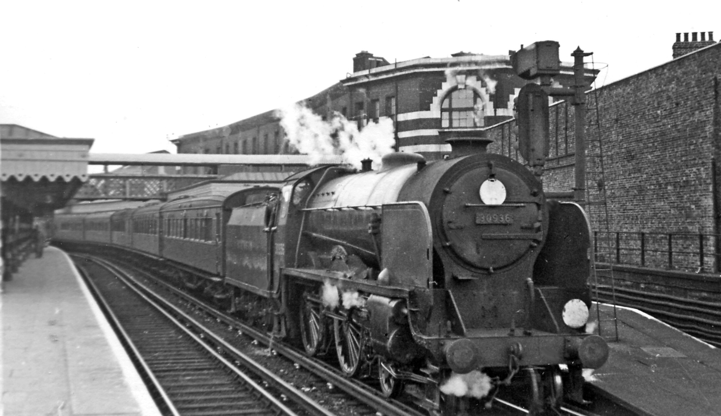 Charing Cross - Hastings express at London Bridge. View NW, towards Charing Cross/Cannon Street on Platform 3, the 14.25 from Charing Cross being at Platform 2, headed by Maunsell 'Schools' V class 4-4-0 No. 30936 'Cranleigh'. The coaches (and the 'Schools' class locomotives) were built to a narrower width for the limited clearance of the tunnels on the SER Hastings line.